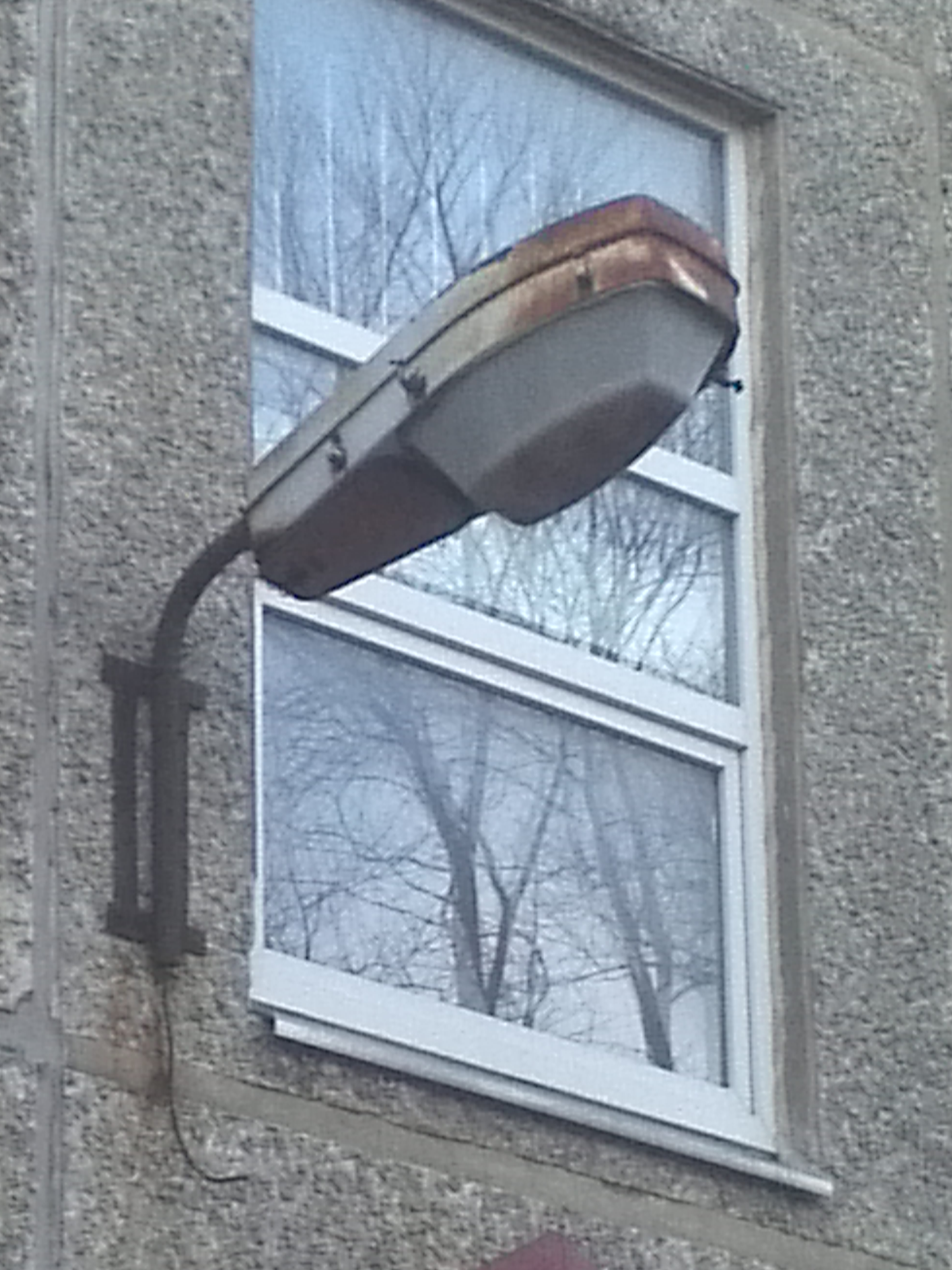 Vintage Bulgarian streetlamp, installed during Soviet times in Tallinn Model: 36.9.900.094